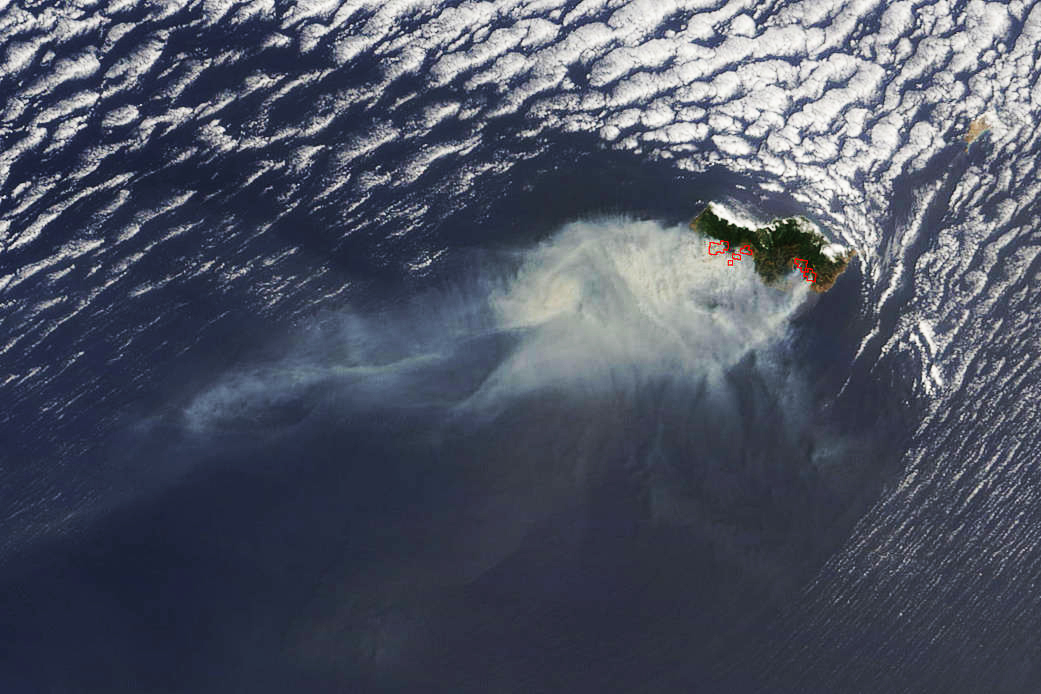 Smoke from several large fires burning on Portugal's Madeira Island were seen blowing over the Atlantic Ocean on Aug. 10 when NASA's Terra satellite passed overhead. Madeira is an archipelago of four islands located off the northwest coast of Africa. They are an autonomous region of Portugal. The Moderate Resolution Imaging Spectroradiometer (MODIS) on NASA’s Terra satellite captured this natural-color image at 8:25 a.m. EDT (12:05 UTC). Places where MODIS detected active fire are located in red. Image Credit: NASA Goddard's Rapid Response Team, Jeff Schmaltz NASA image use policy. NASA Goddard Space Flight Center enables NASA’s mission through four scientific endeavors: Earth Science, Heliophysics, Solar System Exploration, and Astrophysics. Goddard plays a leading role in NASA’s accomplishments by contributing compelling scientific knowledge to advance the Agency’s mission. Follow us on Twitter Like us on Facebook Find us on Instagram